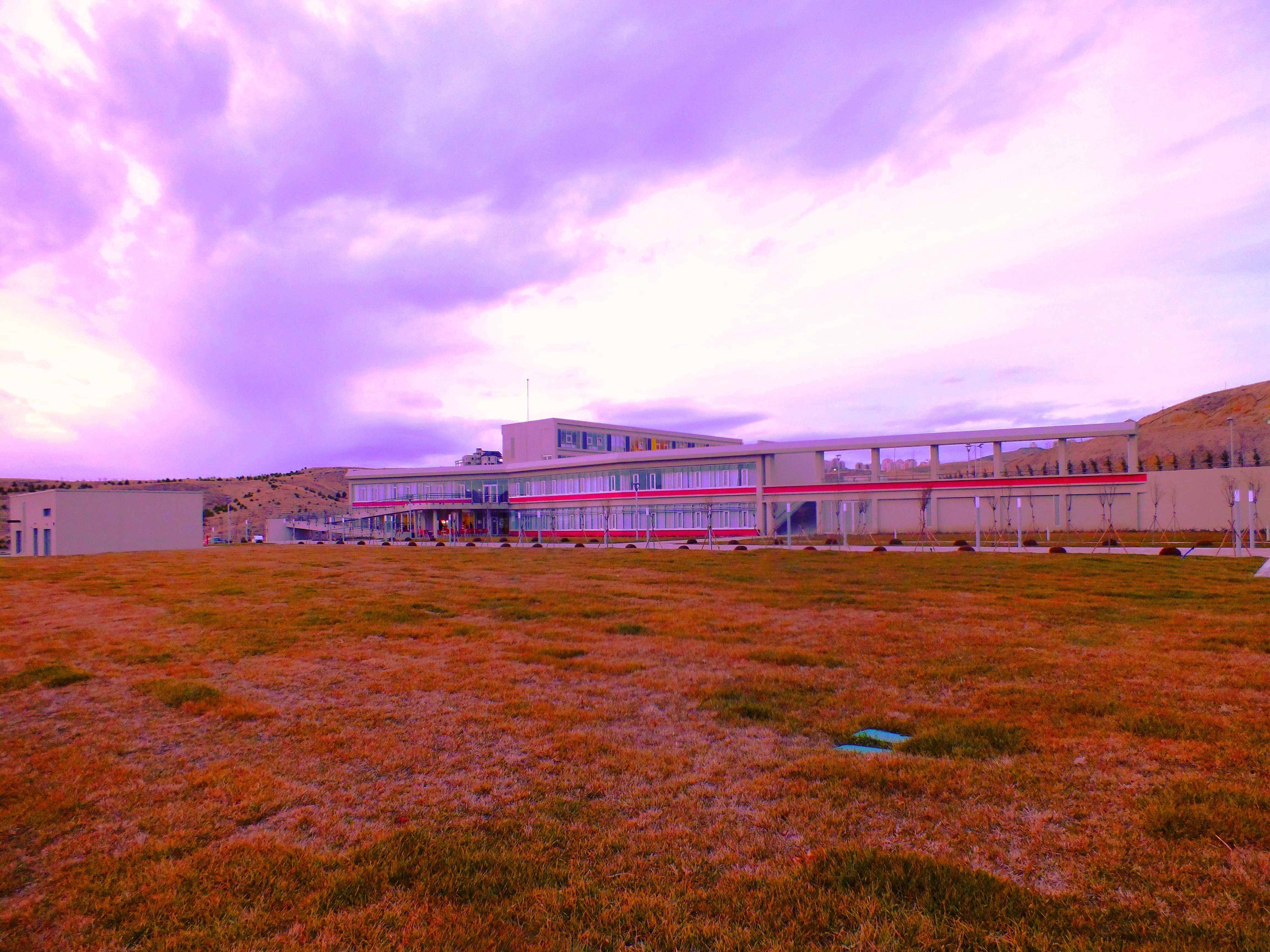 A view of the Çankaya University Preparatory SchoolTürkçe: Çankaya Üniversitesi Hazırlık Okulu'ndan bir görünüm